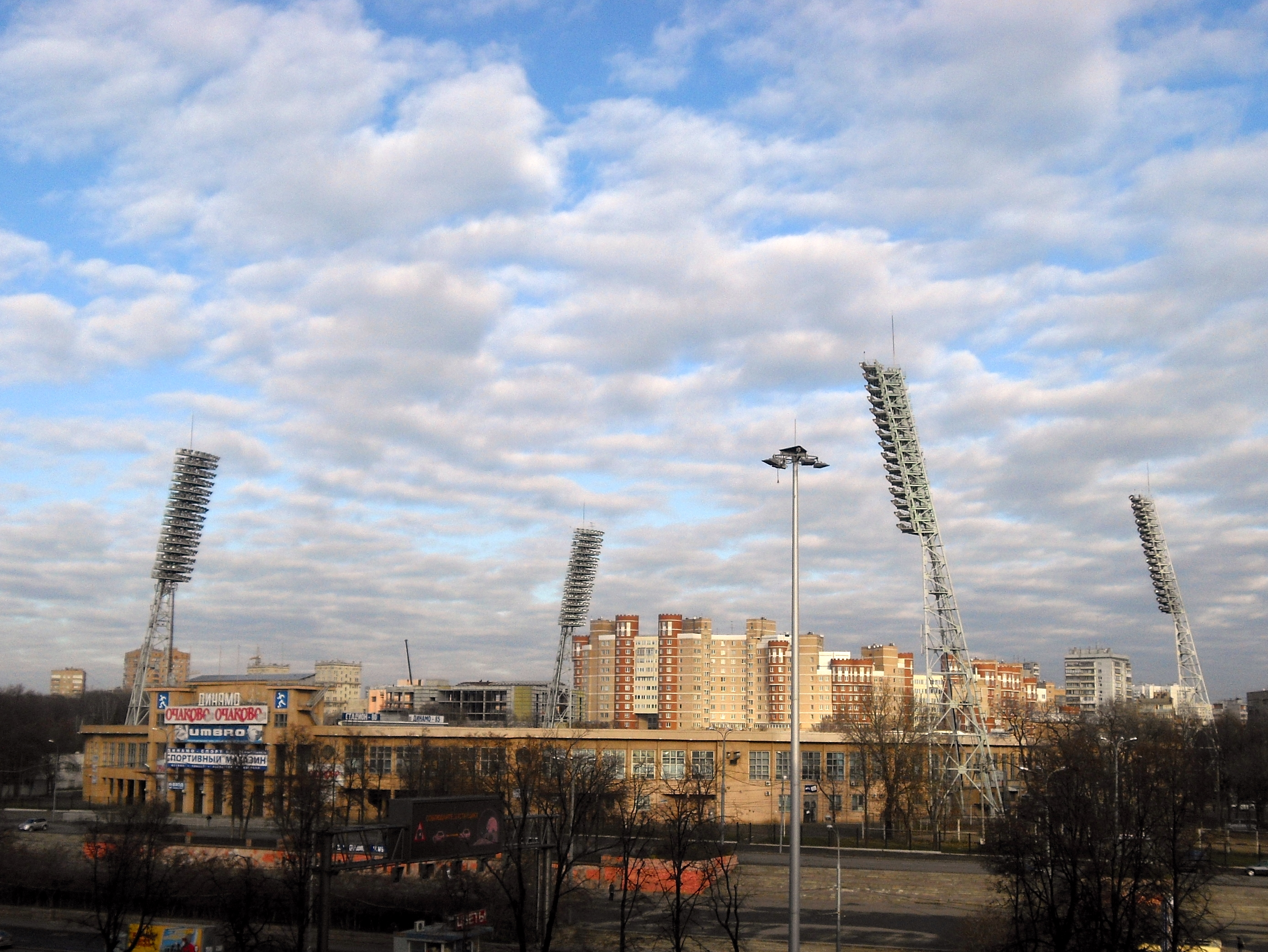 Dynamo Stadium in Moscow